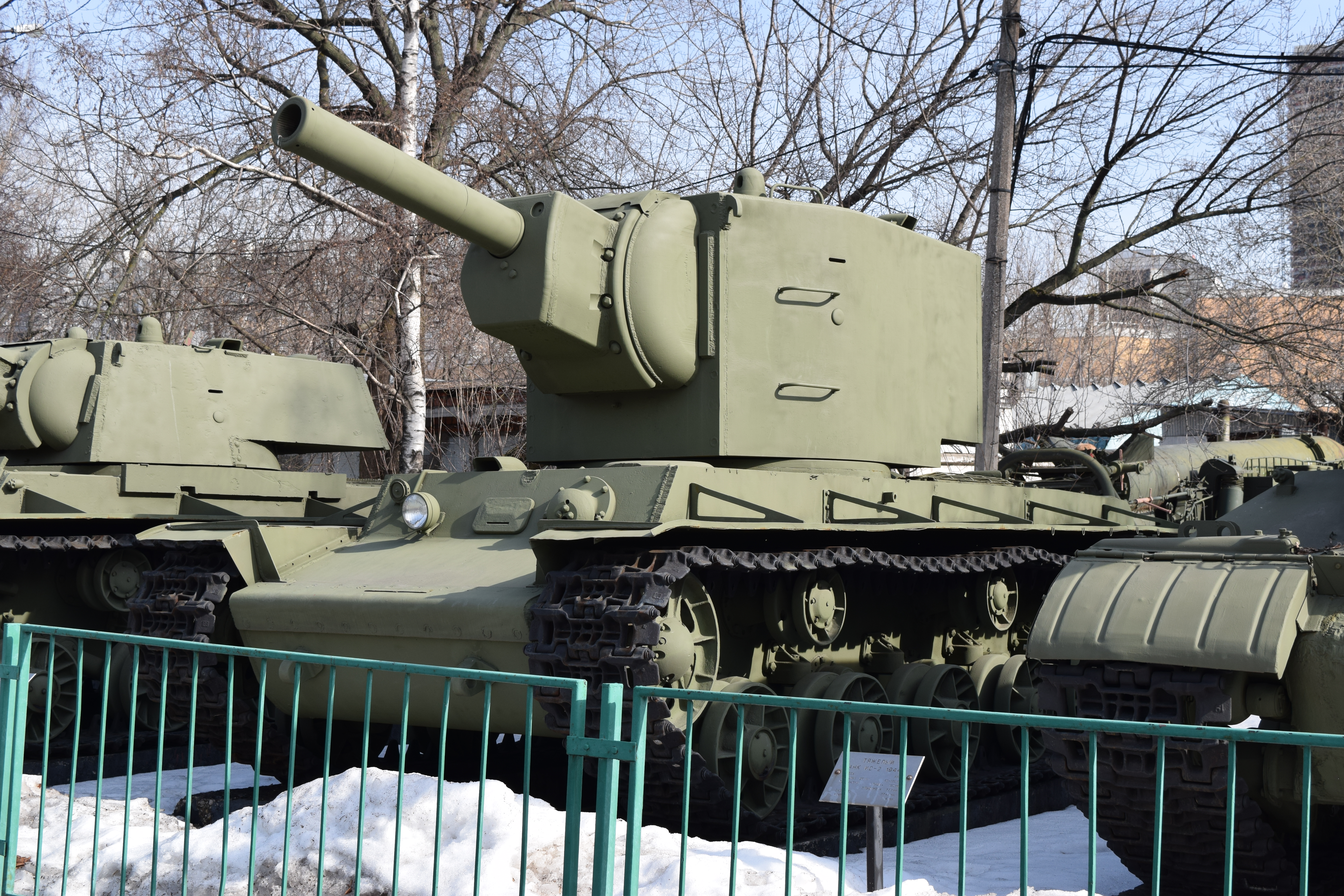 KV-2 tank in Kubinka Tank Museum, Russia Moscow